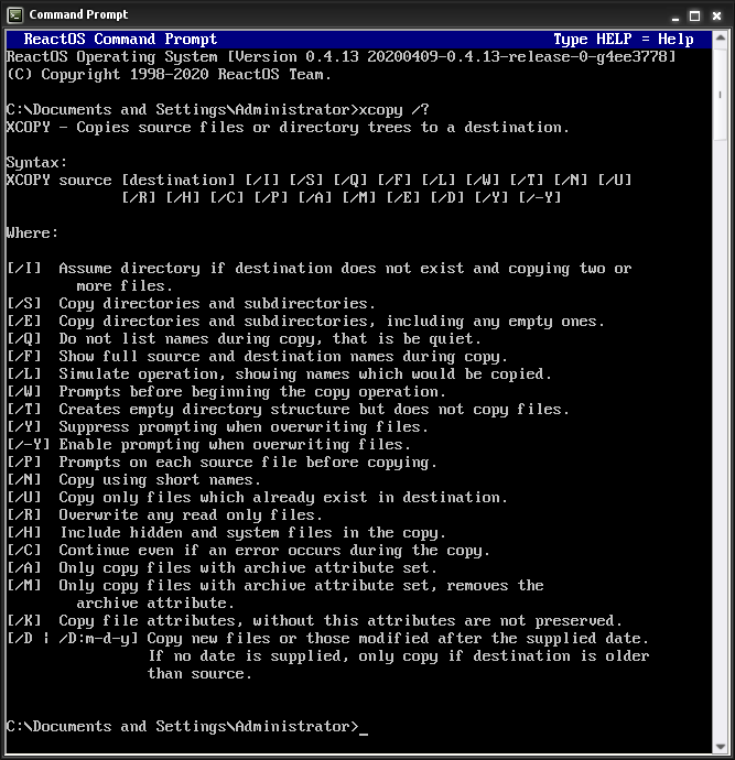 xcopy command on ReactOS-0.4.13